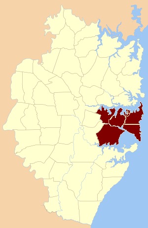 The nine parishes which were part of the former hundred of Sydney between 1835 and 1888